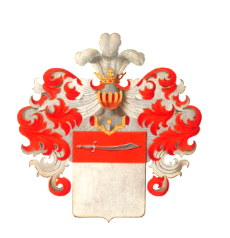 Coat of Arms of Zhiharev family